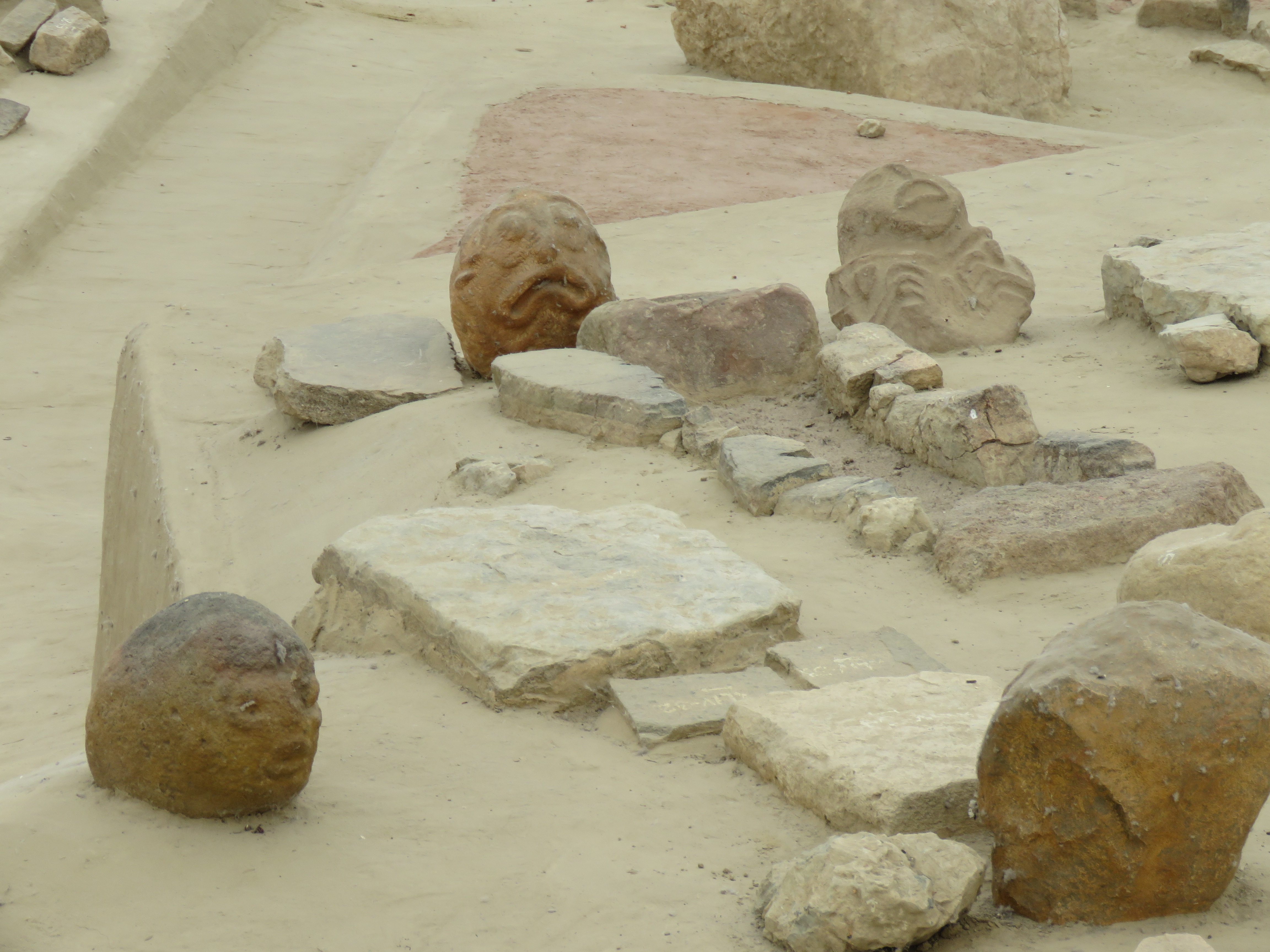 Museum Lepenski Vir